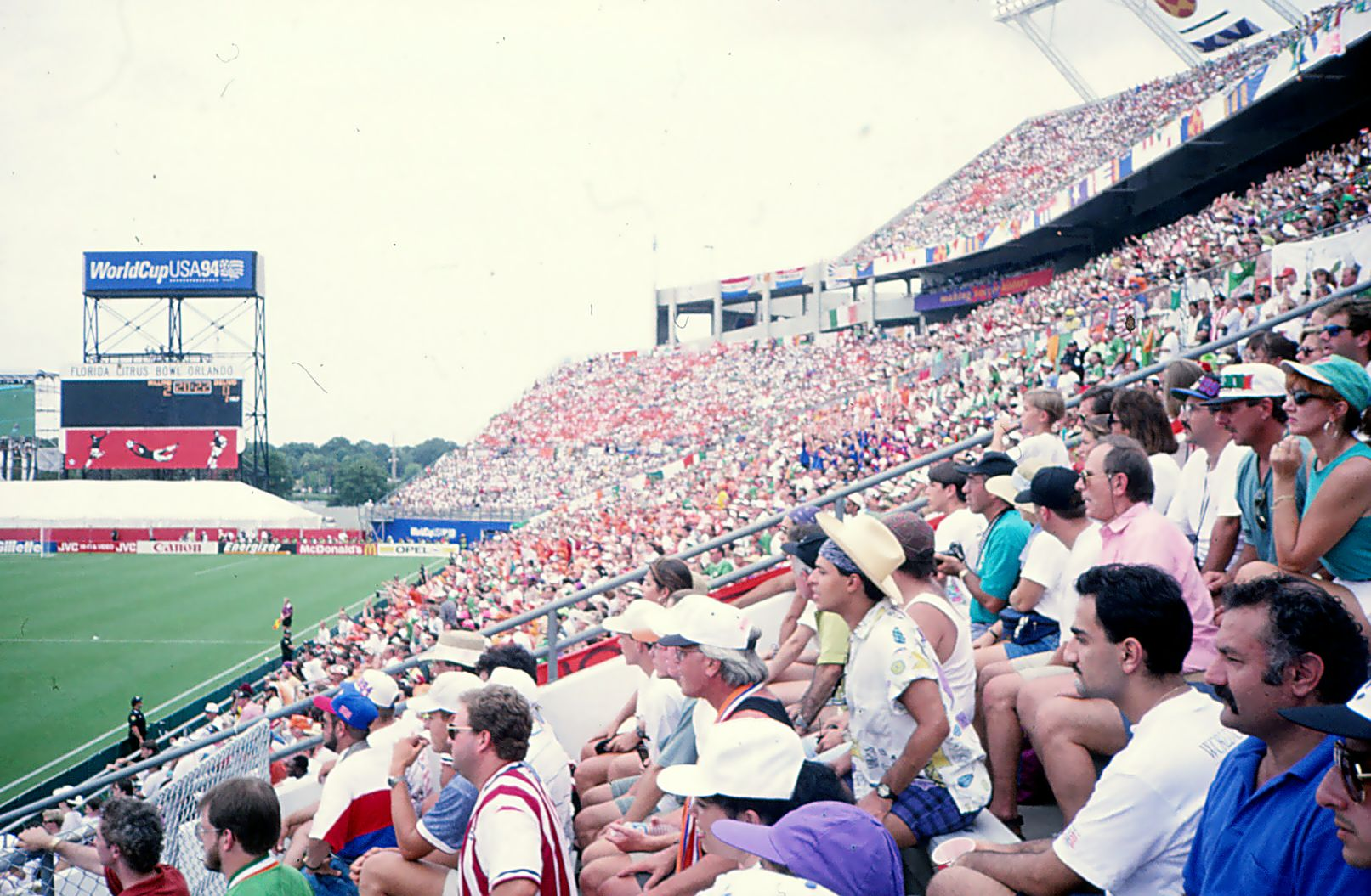 WM Football (Soccer) at the Citrus Bowl in Orlando, Florida og July 4, 1994. Ireland lost 0-2 to Holland.